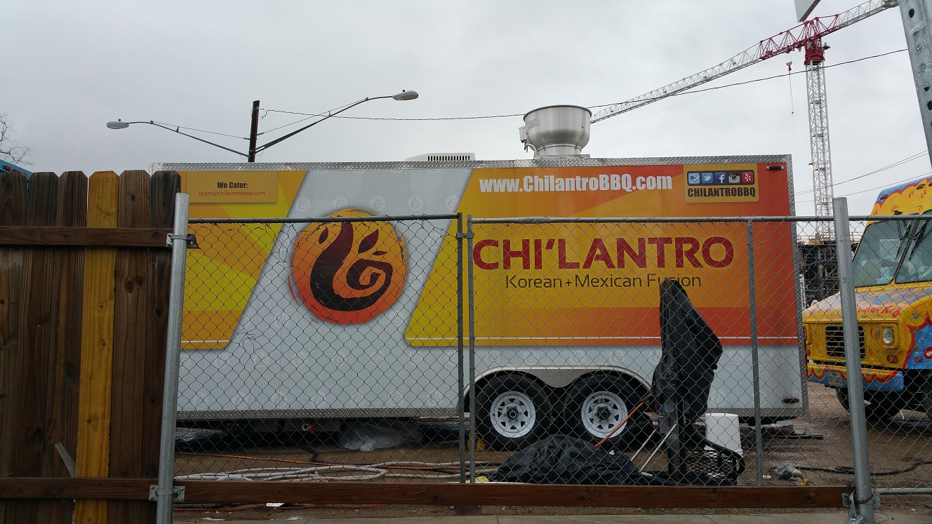 2015, Chi'Lantro BBQ, SXSW food truck lot, Austin